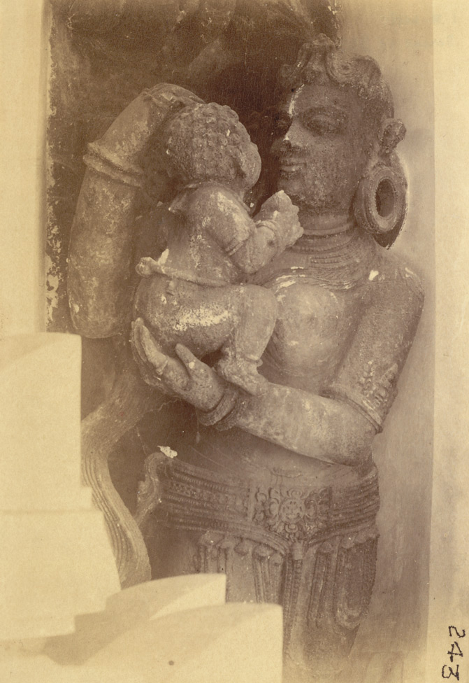 Photograph of a statue of mother and child from the Jagannatha Temple at Puri, from the Archaeological Survey of India Collections, taken by Poorno Chander Mukherji in the 1890s.